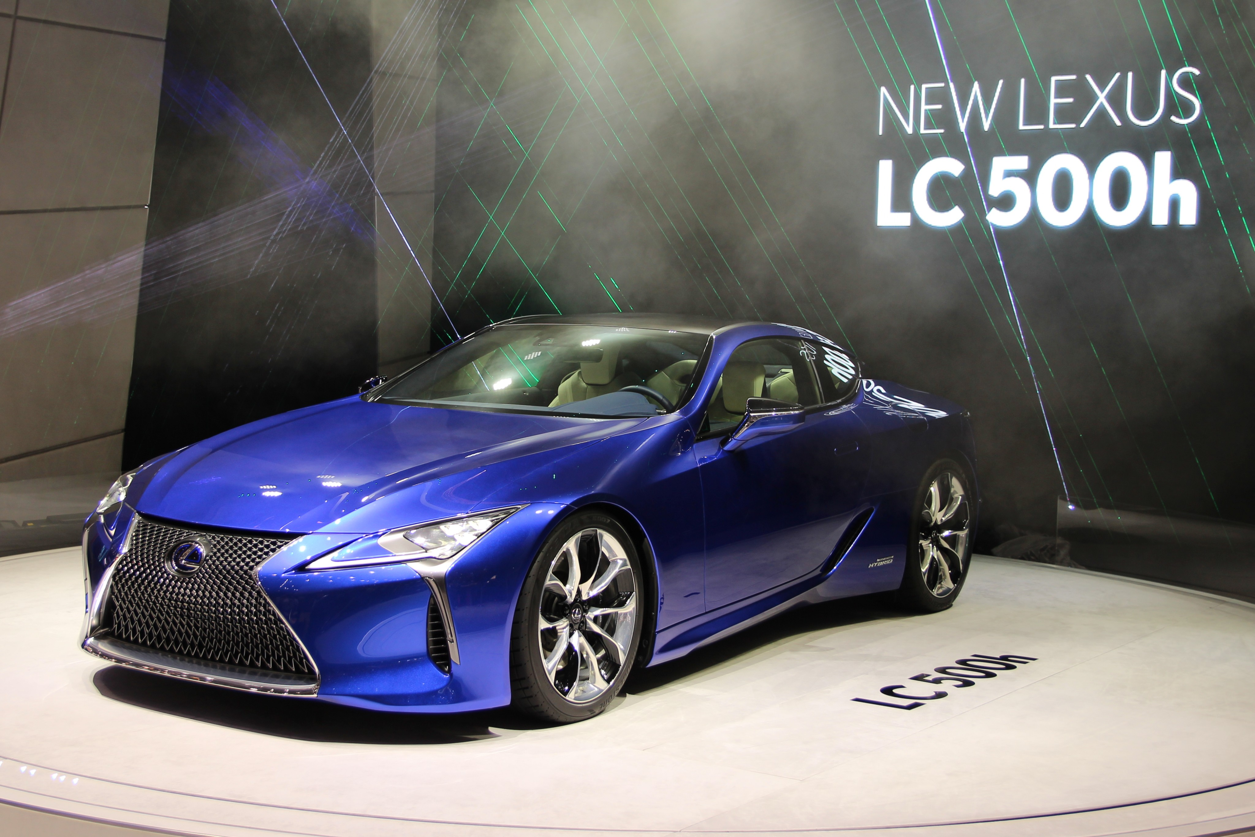 Hybrid-powered Lexus LC 500h unveiled at Geneva Motor Show in March 2016